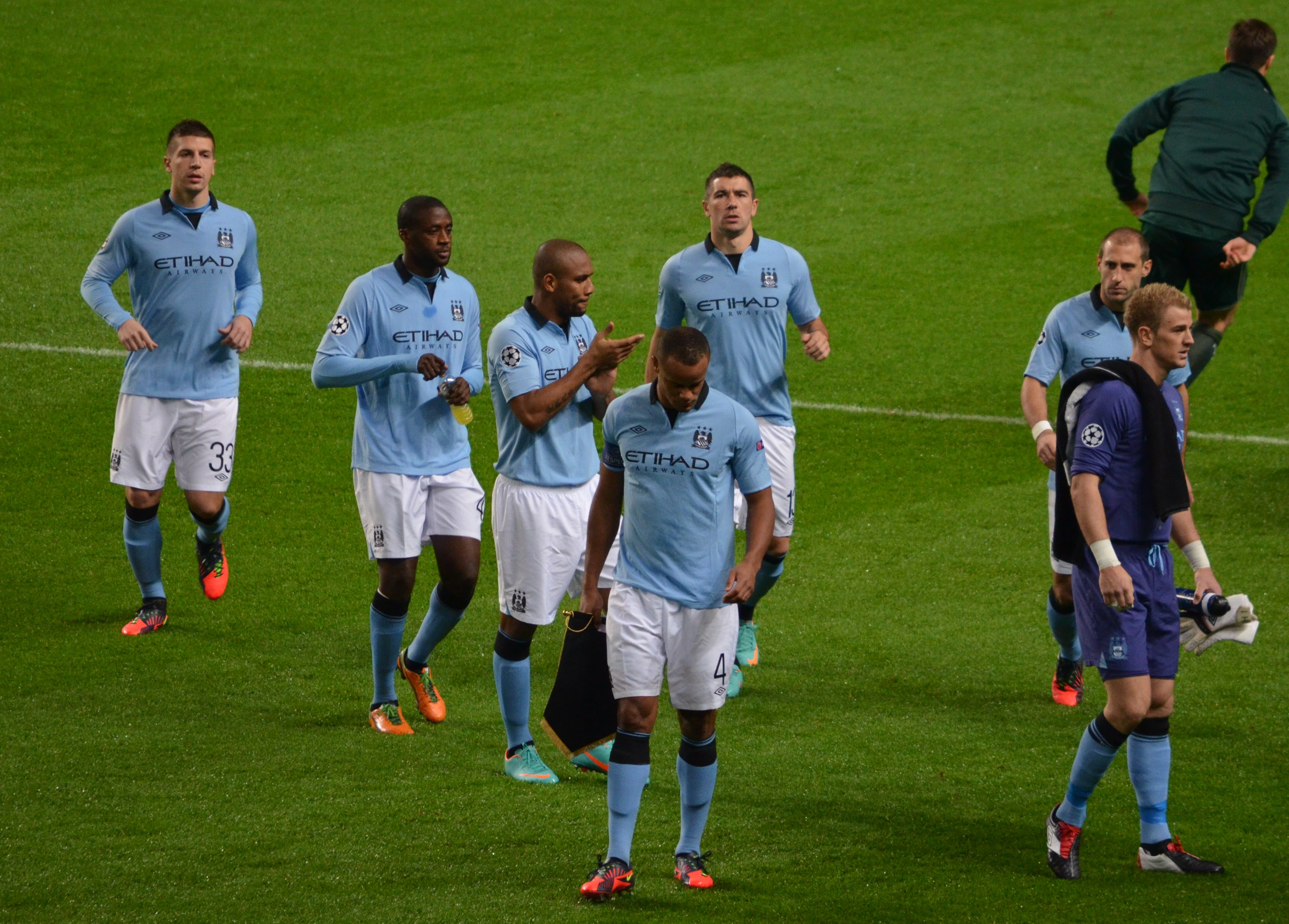 Players of Manchester City FC before match against Real Madrid in Champions League group stage in season 2012/13.